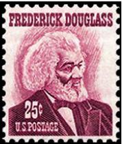 US stamp honoring Frederick Douglass